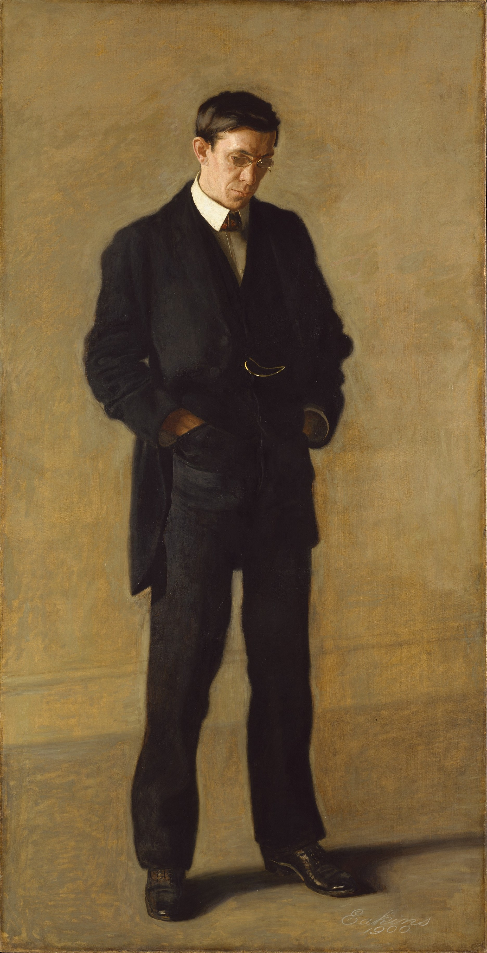 Depicted person: Louis N. Kenton - The husband of the artist's sister, Elizabeth Macdowell Kenton.